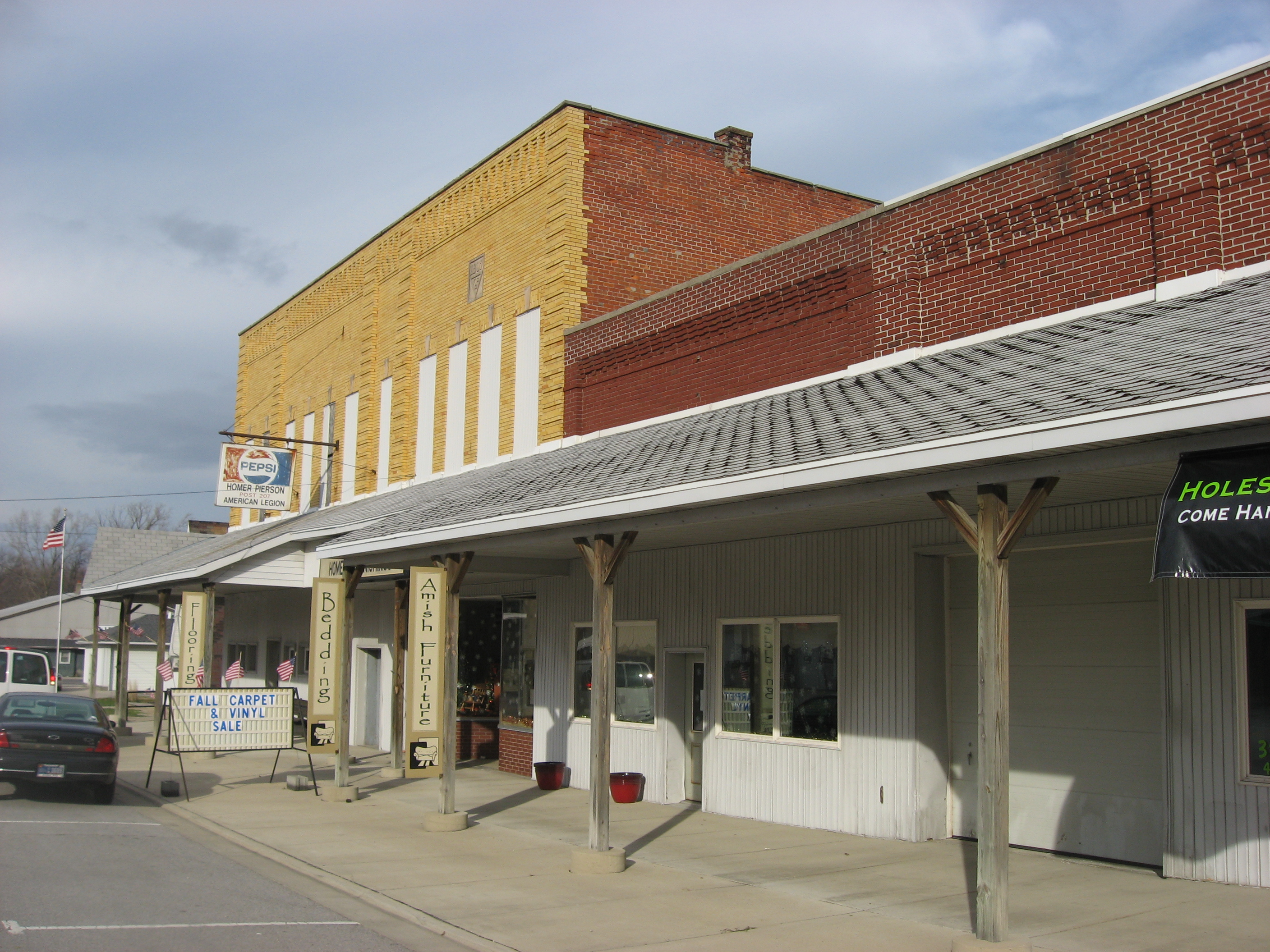 Buildings on the eastern side of State Street (U.S. Route 33/State Route 49) between Simpson and Walcott Streets in downtown Willshire, Ohio, United States.